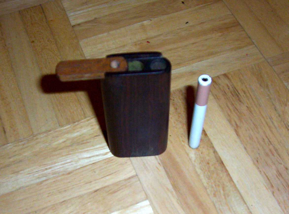 Wooden "dugout" box with pipe, used primarily for surreptitious smoking of marijuana